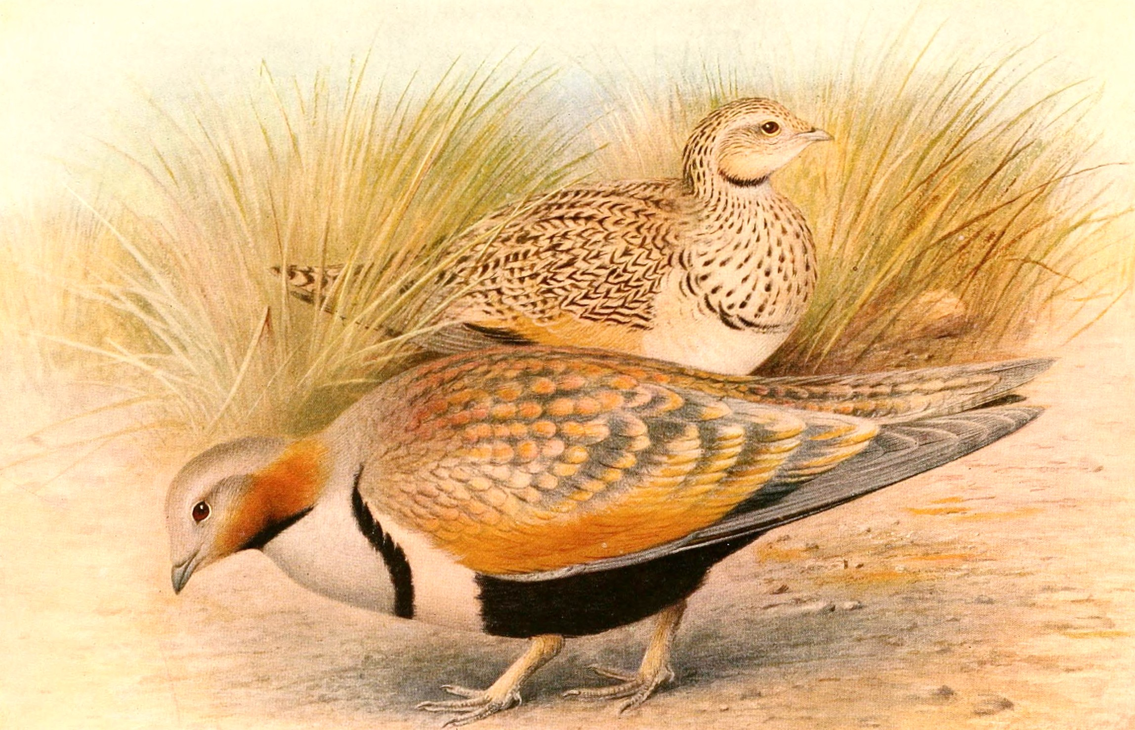 The Imperial Sand-grouse (Pterocles orientalis) = Black-bellied Sandgrouse